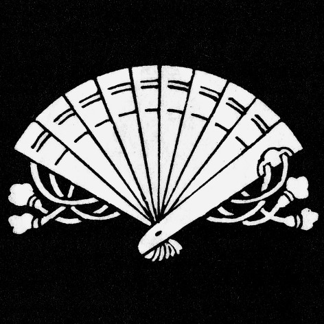 Crest of Niwa clan at Mikusa